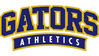 San Francisco State Gators wordmark